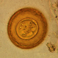 Egg of Hymenolepis diminuta. These eggs are round or slightly oval, size 70 to 86 µm by 60 to 80 µm, with a striated outer membrane and a thin inner membrane. The space between the membranes is smooth or faintly granular. The oncosphere has six hooks (of which at least four are visible at this level of focus).